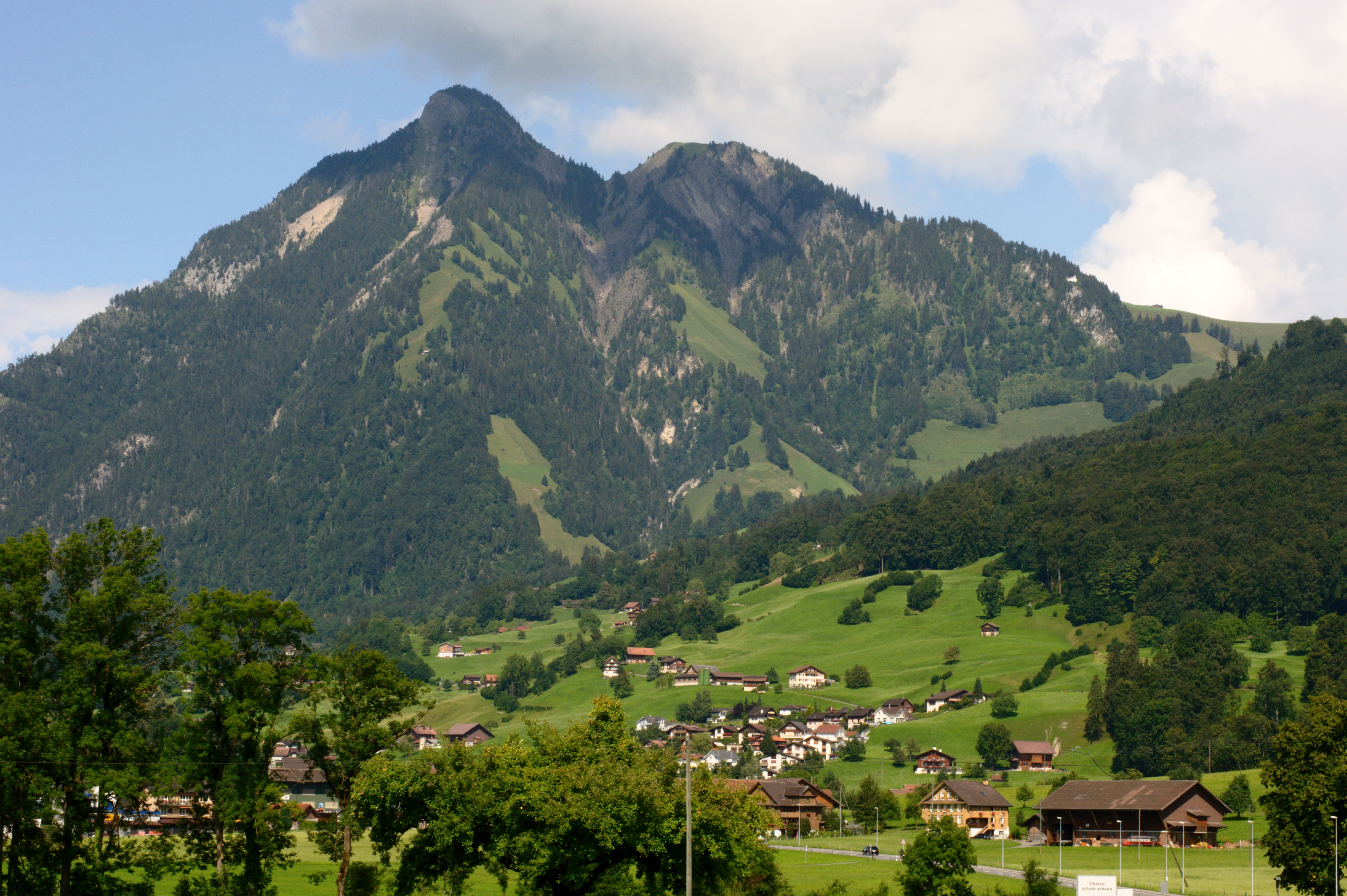 The Stanserhorn seen from Southwest